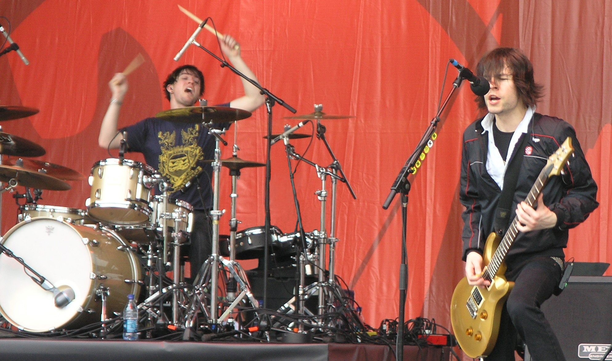 Taken during MyCokeFest at Centennial Olympic Park in Atlanta. Thanks to a bit of cloning by myself (-Panser Born- (talk)), this version is sans crazy guy.